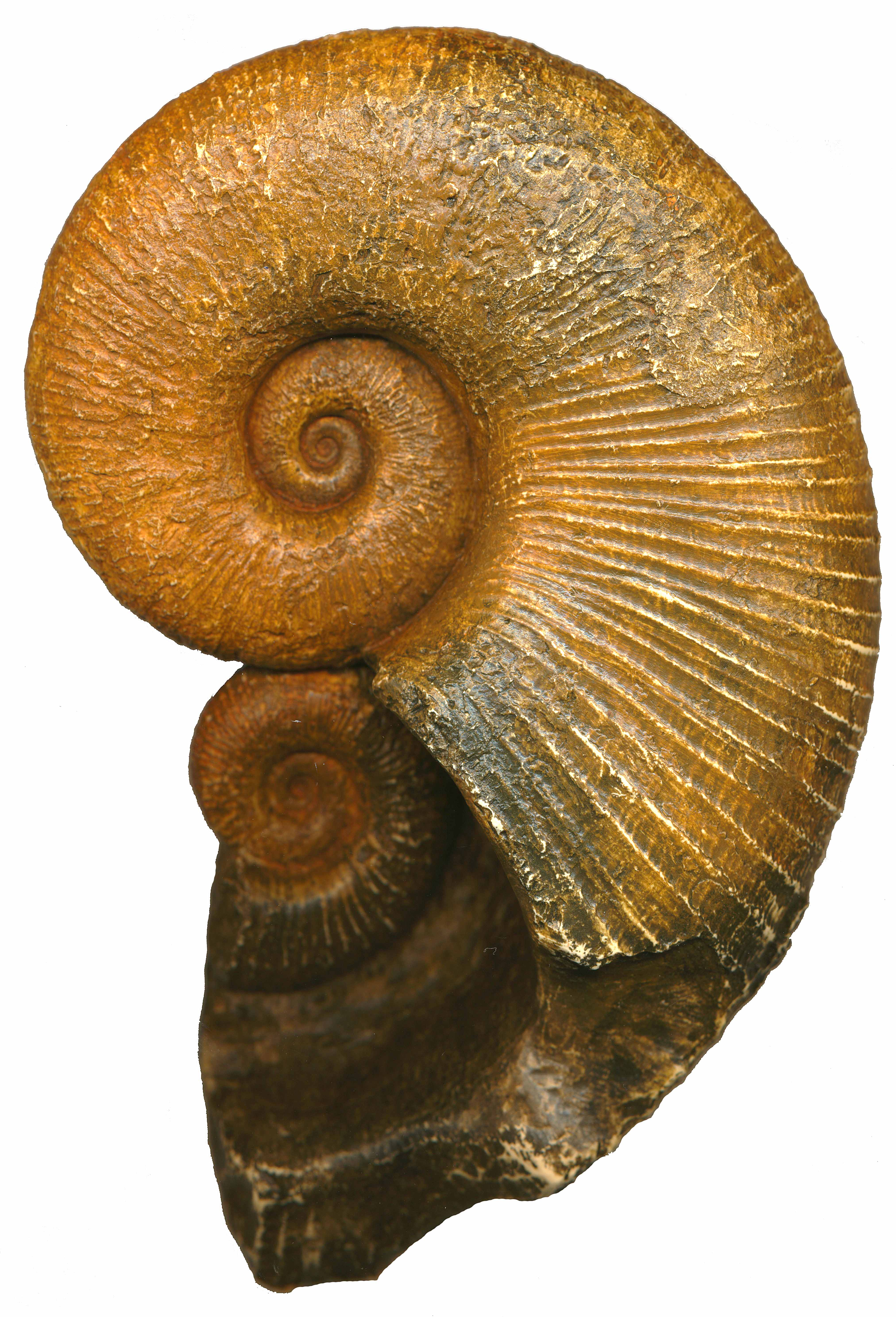 Lobolytoceras siemensi, a cast of macro- and microconch from the Lower Jurassic (Germany)